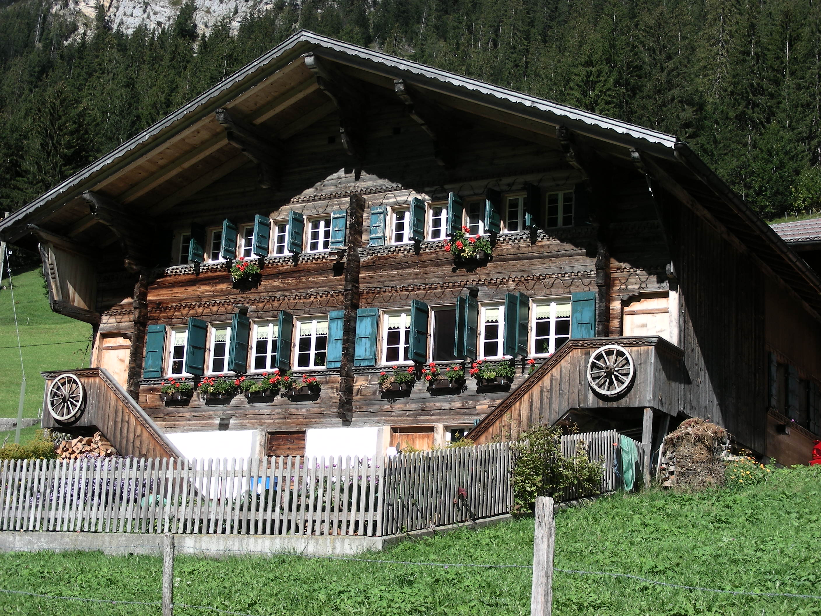 House on the Stalden